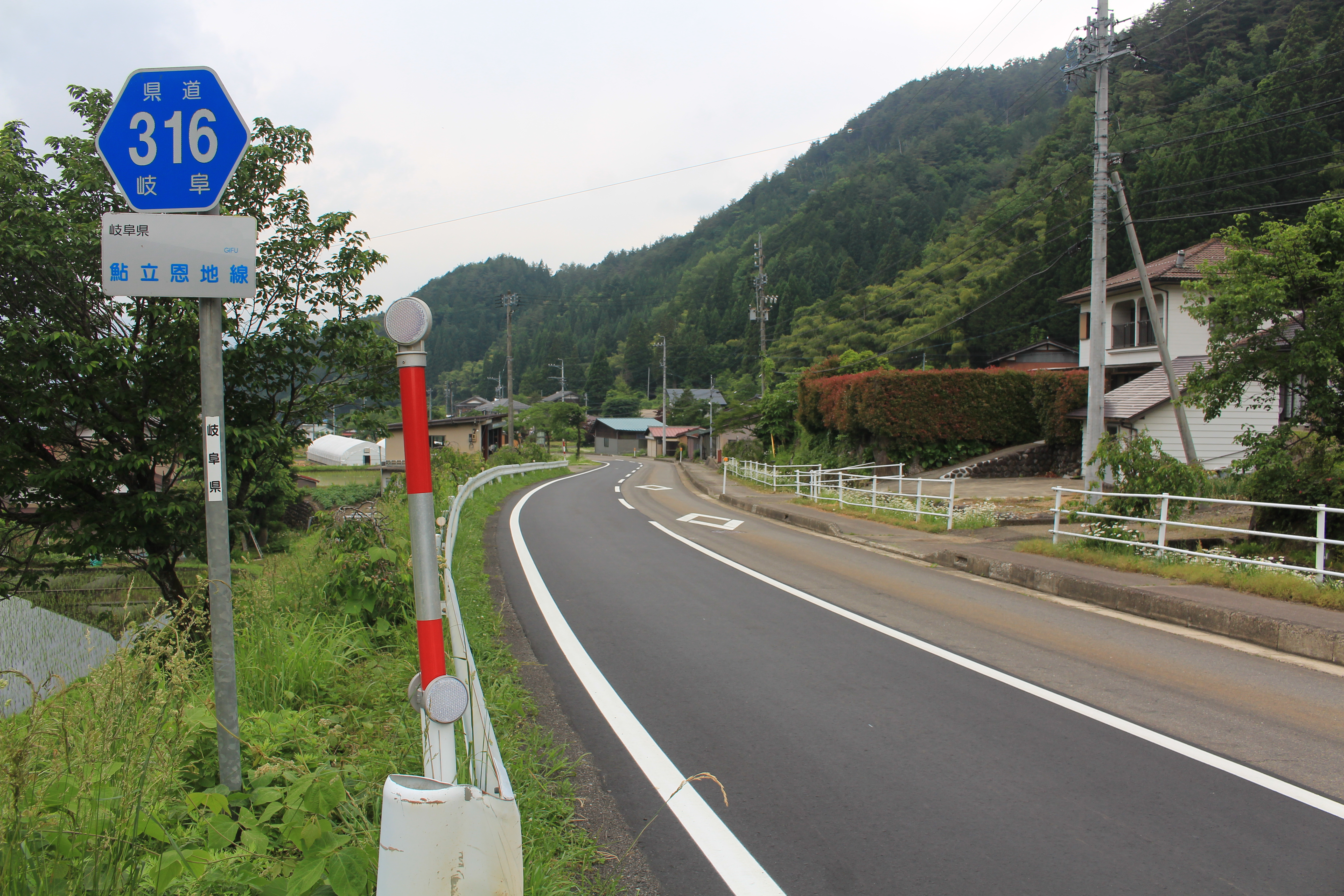 Gifu Prefectural Road Route 316 in Nakanishi, Shirotori, Gujo, Gifu prefecture, Japan.